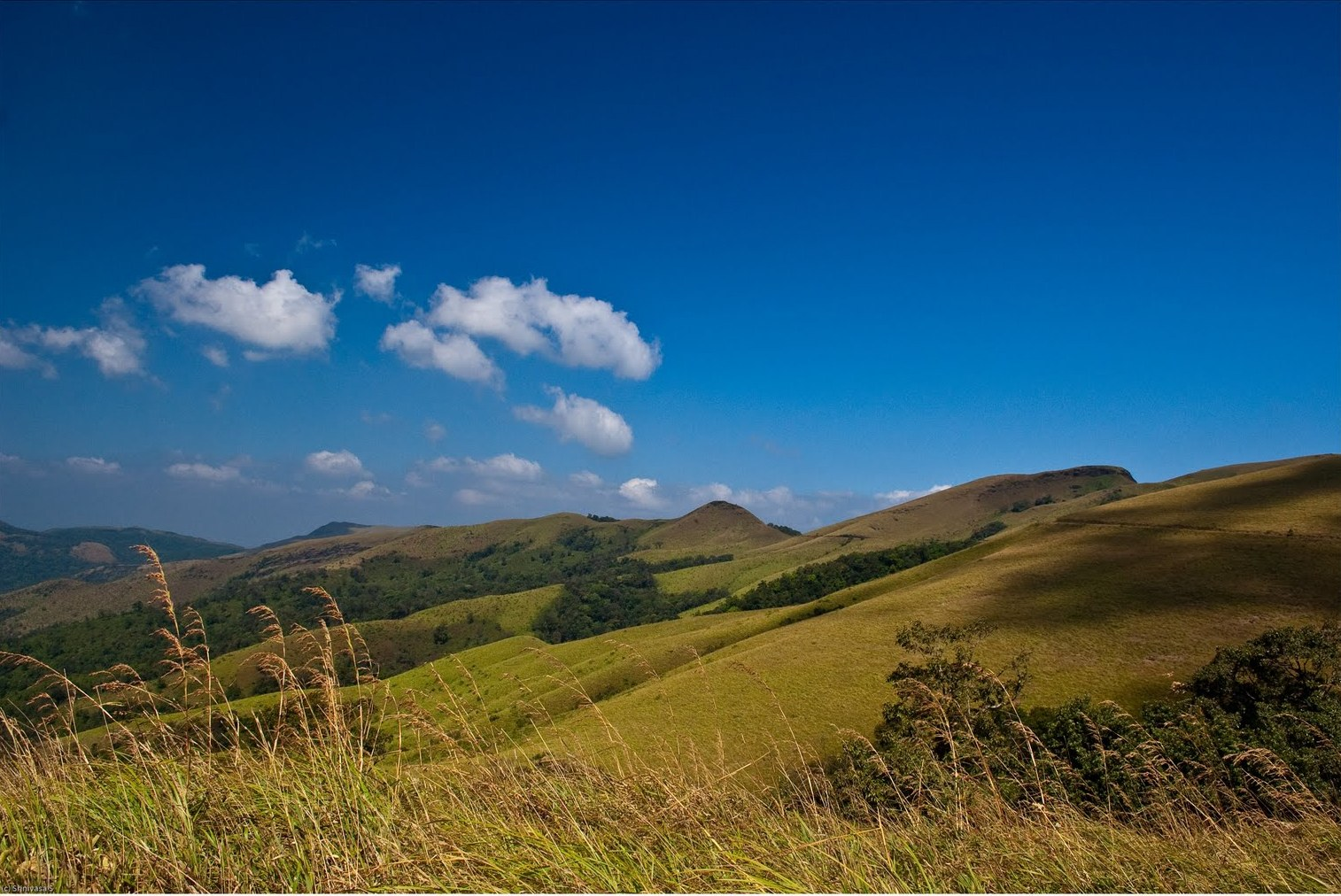 Beautiful landscapes to be seen all around Kemmangundi